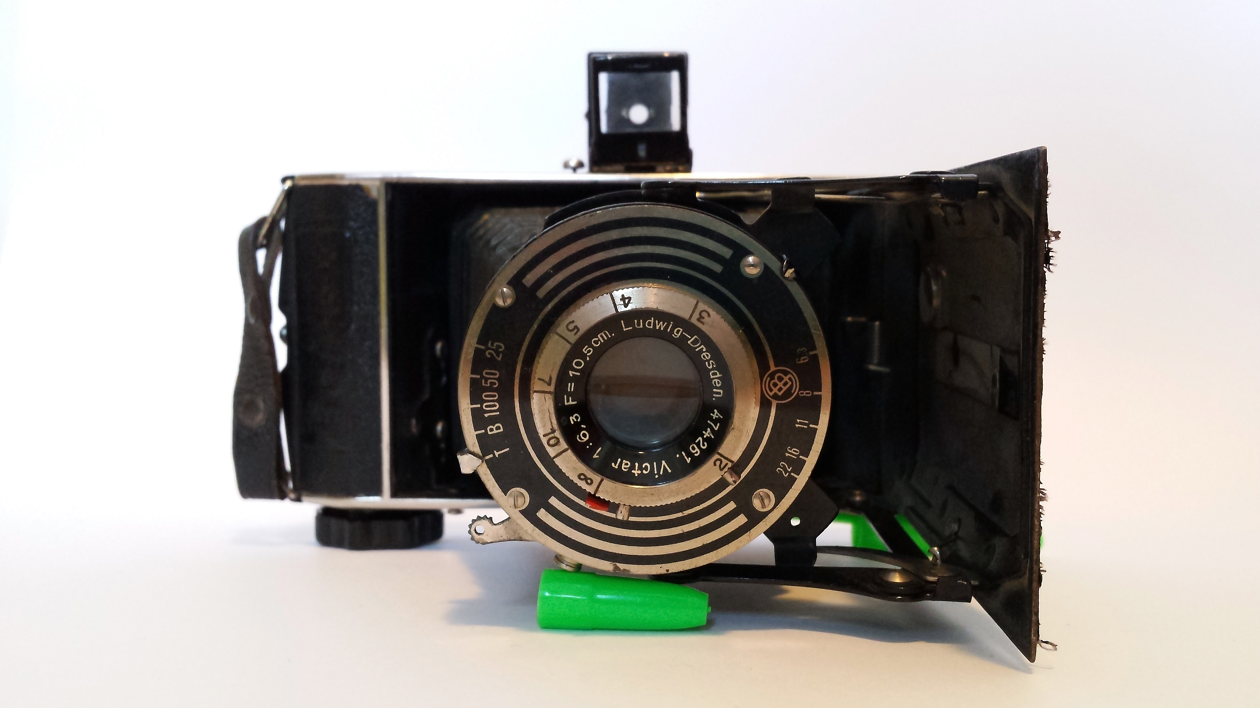 Old camera Beier Beirax from Germany